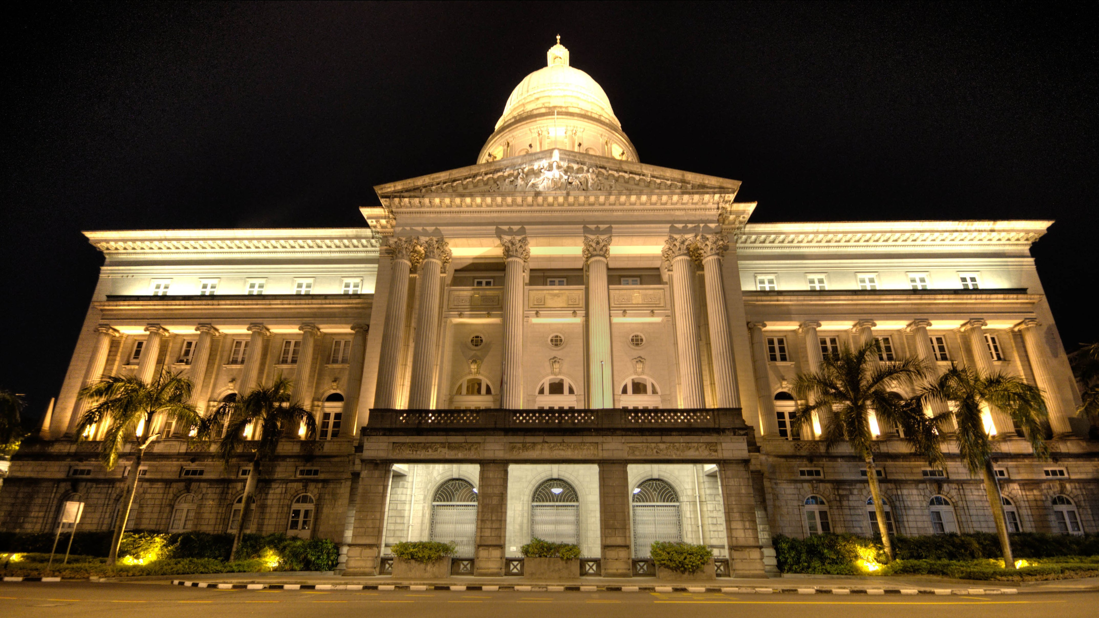 The Old Supreme Court Building on Saint Andrew's Road, Singapore, illuminated at night.